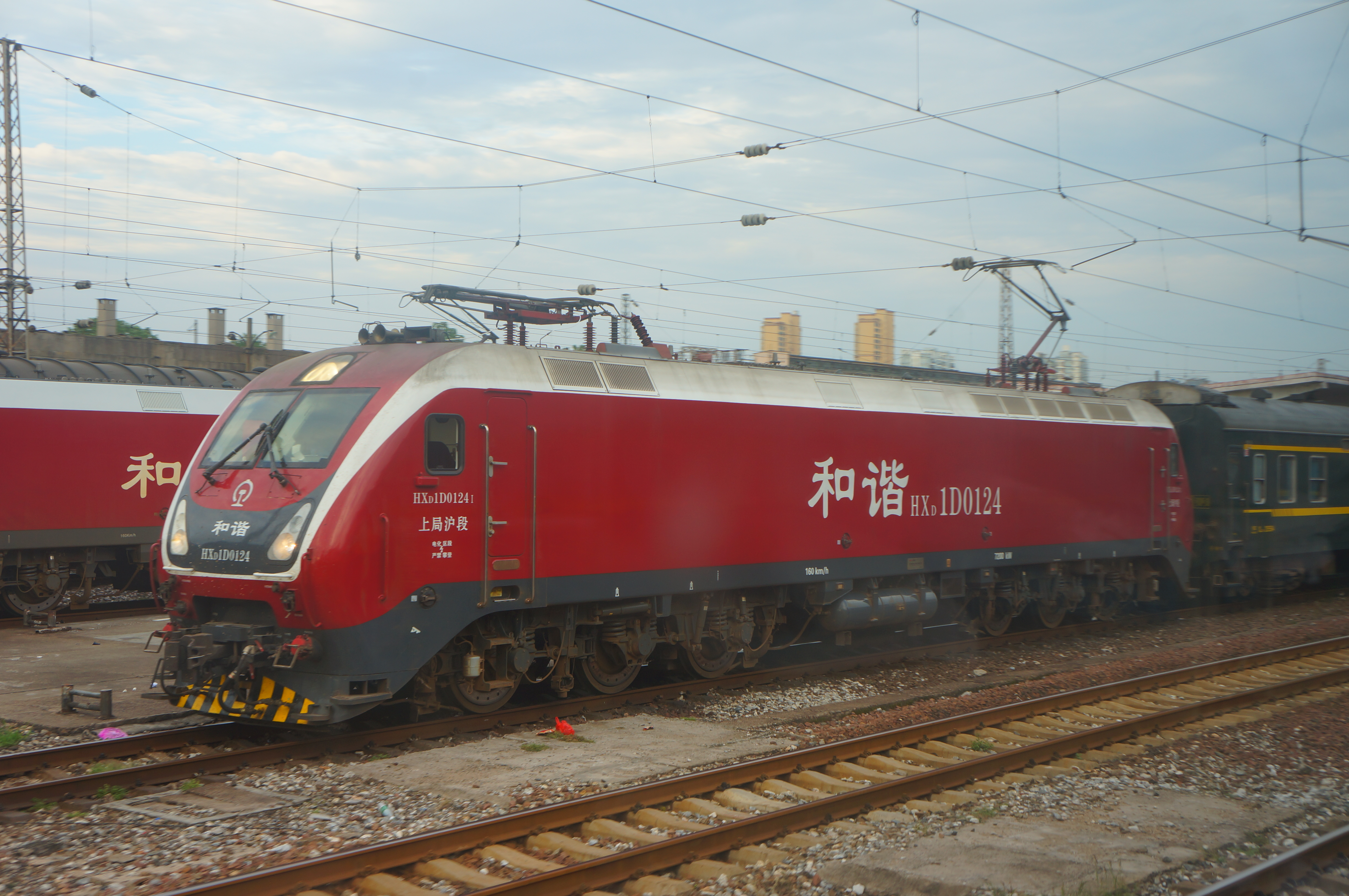 201708 HXD1D-0124 hauls T26 at Yingtan Station. Taken on T82.